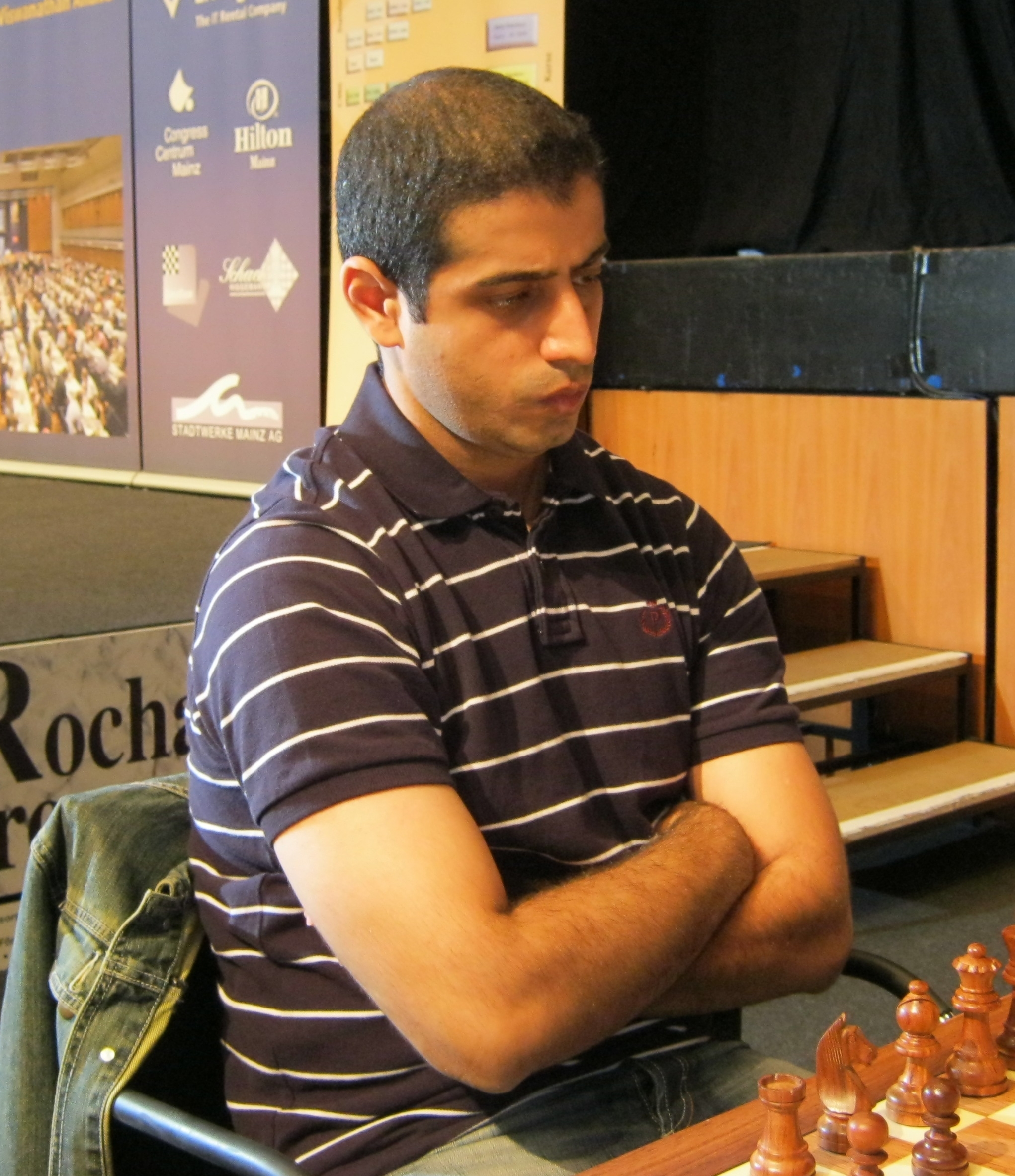 Ehsan Ghaem Maghami, chess grandmaster from Iran